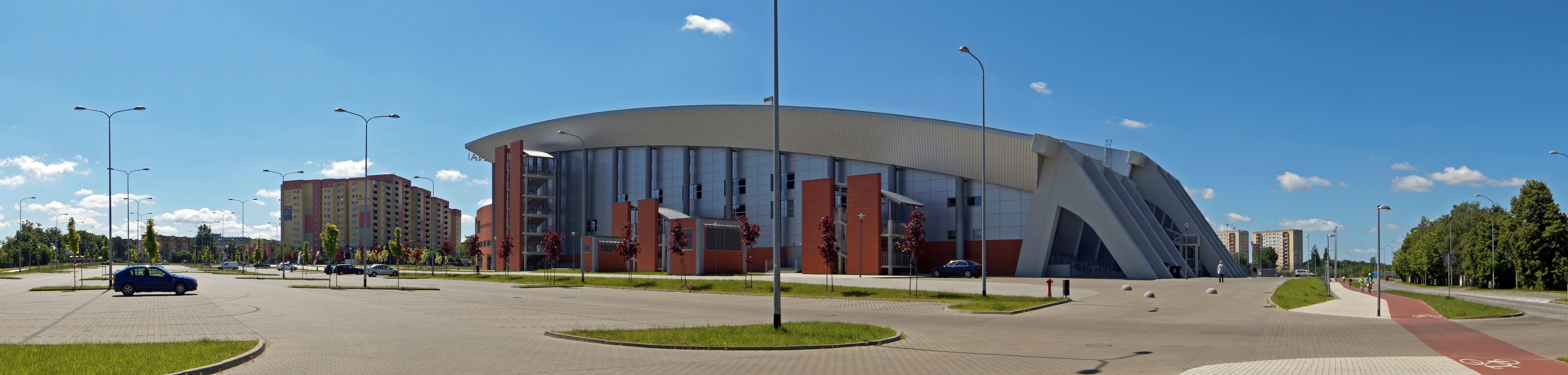 Arena Szczecin (Azoty Arena) in Szczecin, Poland